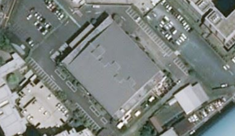 Fukuoka Kyuden Kinen Gymnasium